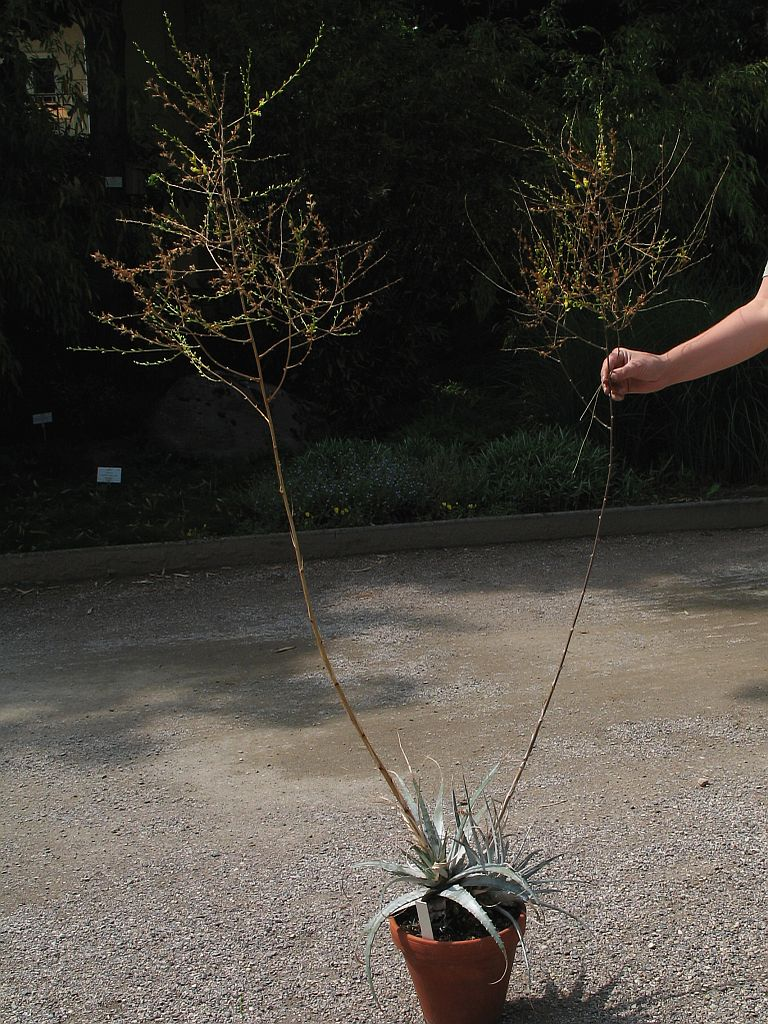 Deuterocohnia recurvipetala in cultivation at the Botanical Garden of Heidelberg, Germany.